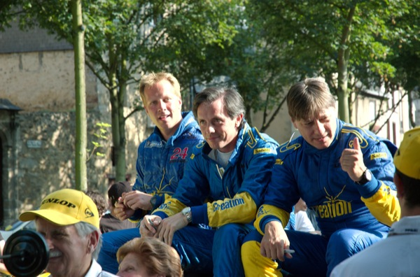 Pictures from the 24 Hours of Le Mans 2006 Drivers' Parade. - #9 Creation CA06/H drivers (l-r) Jamie Campbell-Walter, Felipe Ortiz, and Beppe Gabbinai